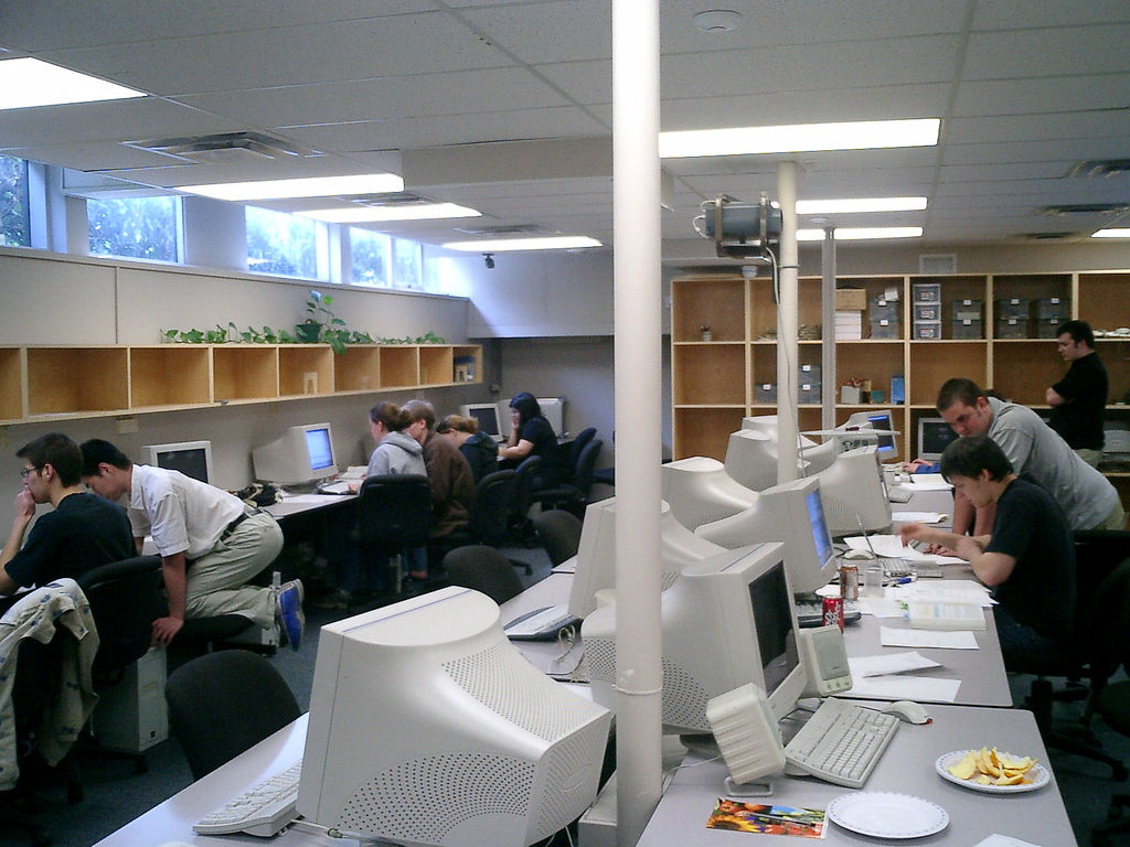 A programming competition in progress.